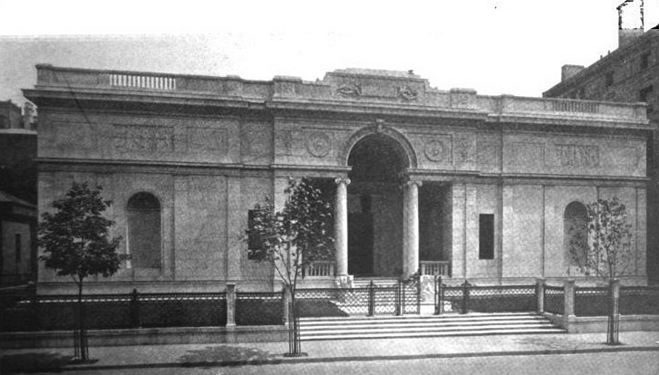 J. P. Morgan's Library and Art Museum, adjoining his residence His collection of paintings and tapestries is one of the finest in the United States.